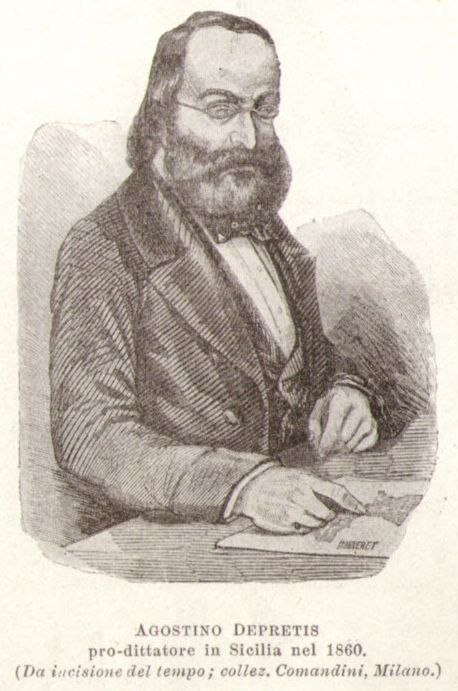 Agostino Depretis, the future italian prime minister, governor of Sicily in 1860.